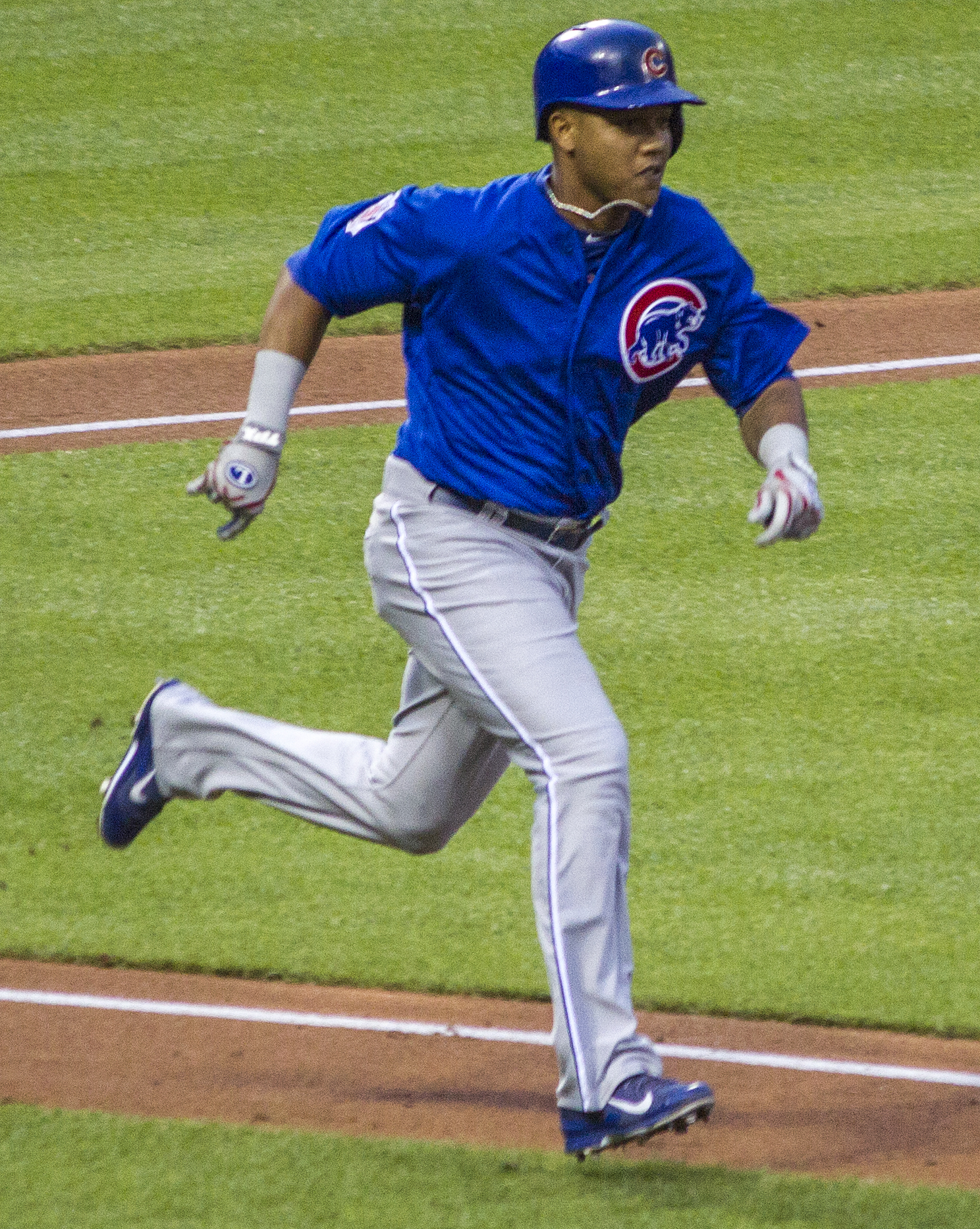 Starlin Castro Chicago Cub player 2014